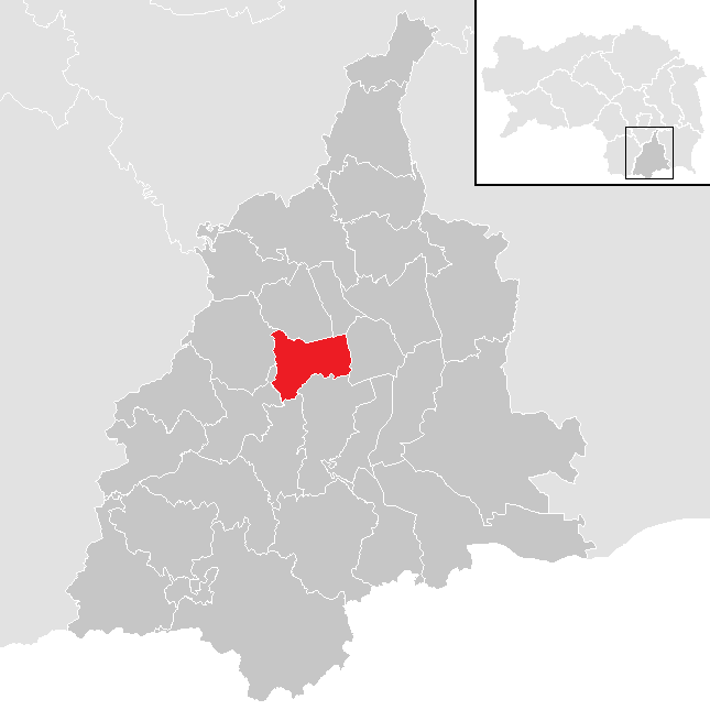 District Leibnitz